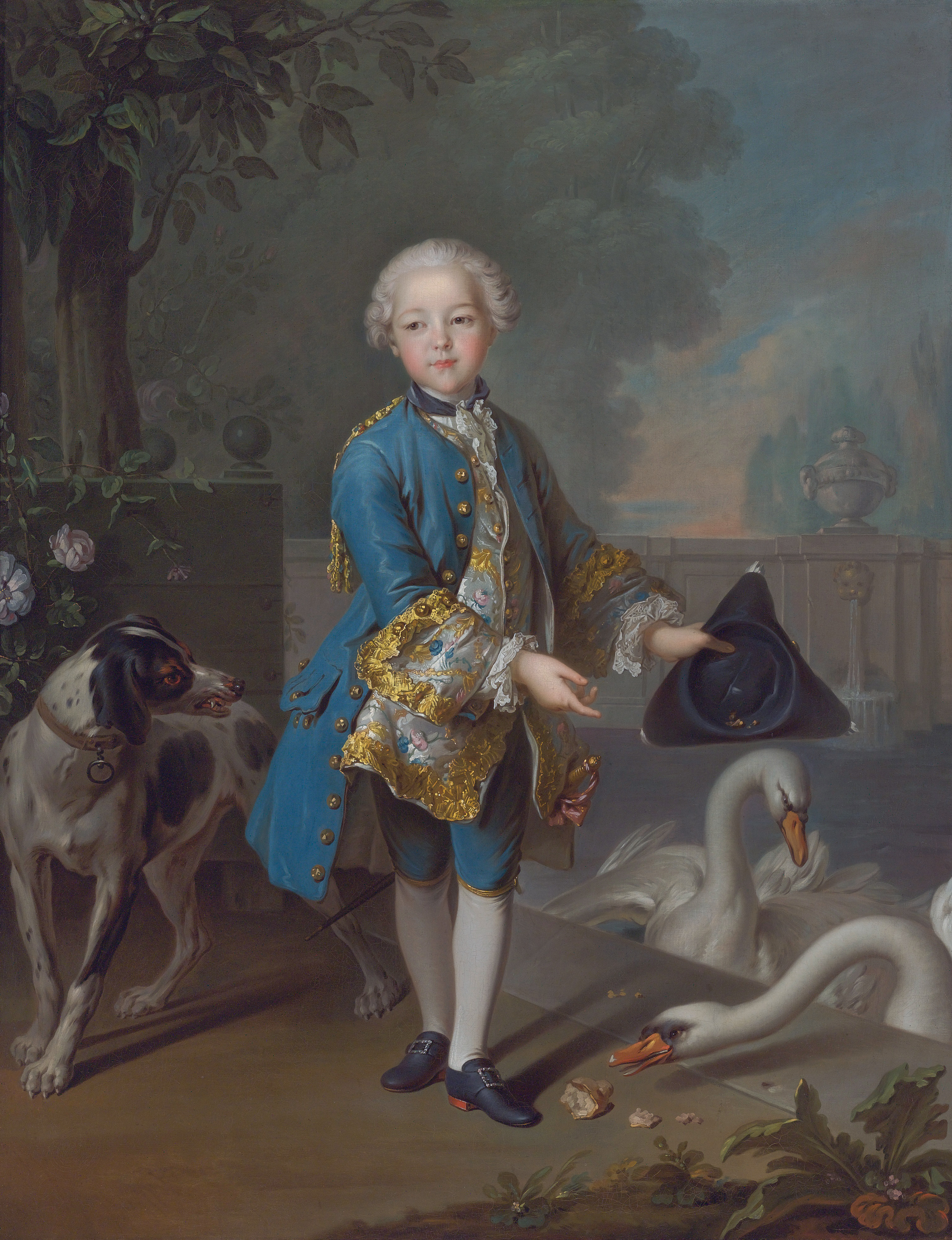 Portrait of Louis Philippe Joseph d'Orleans, Duke of Orleans by Louis Tocqué